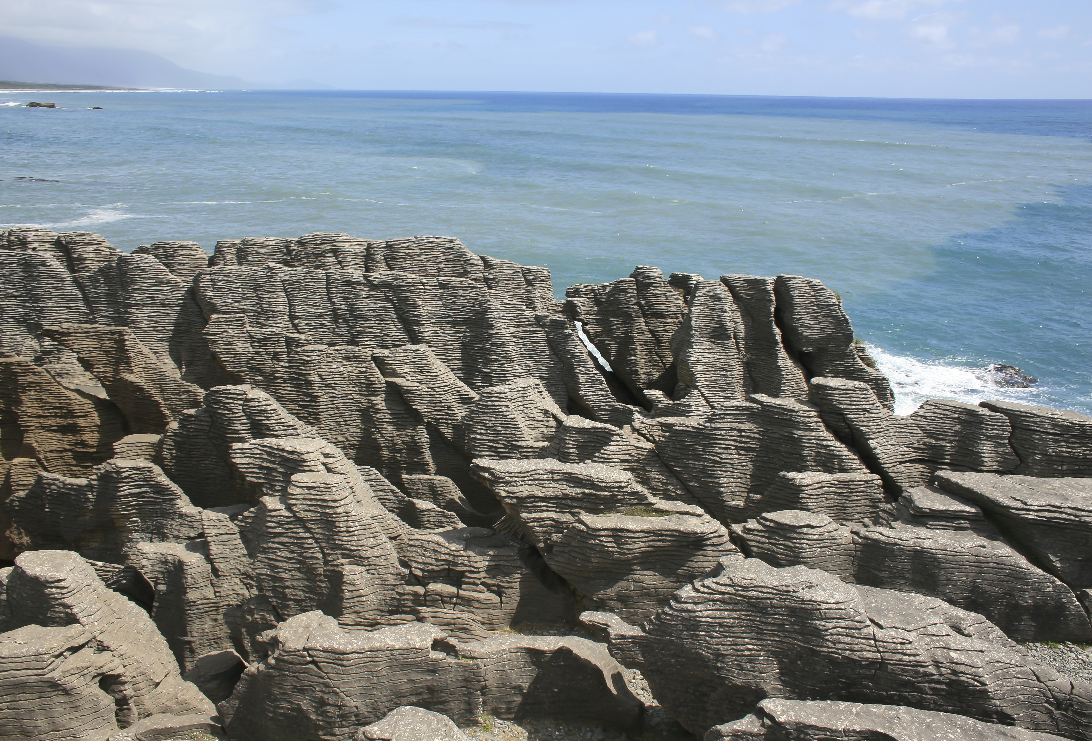 Pancake Rocks, New Zealand